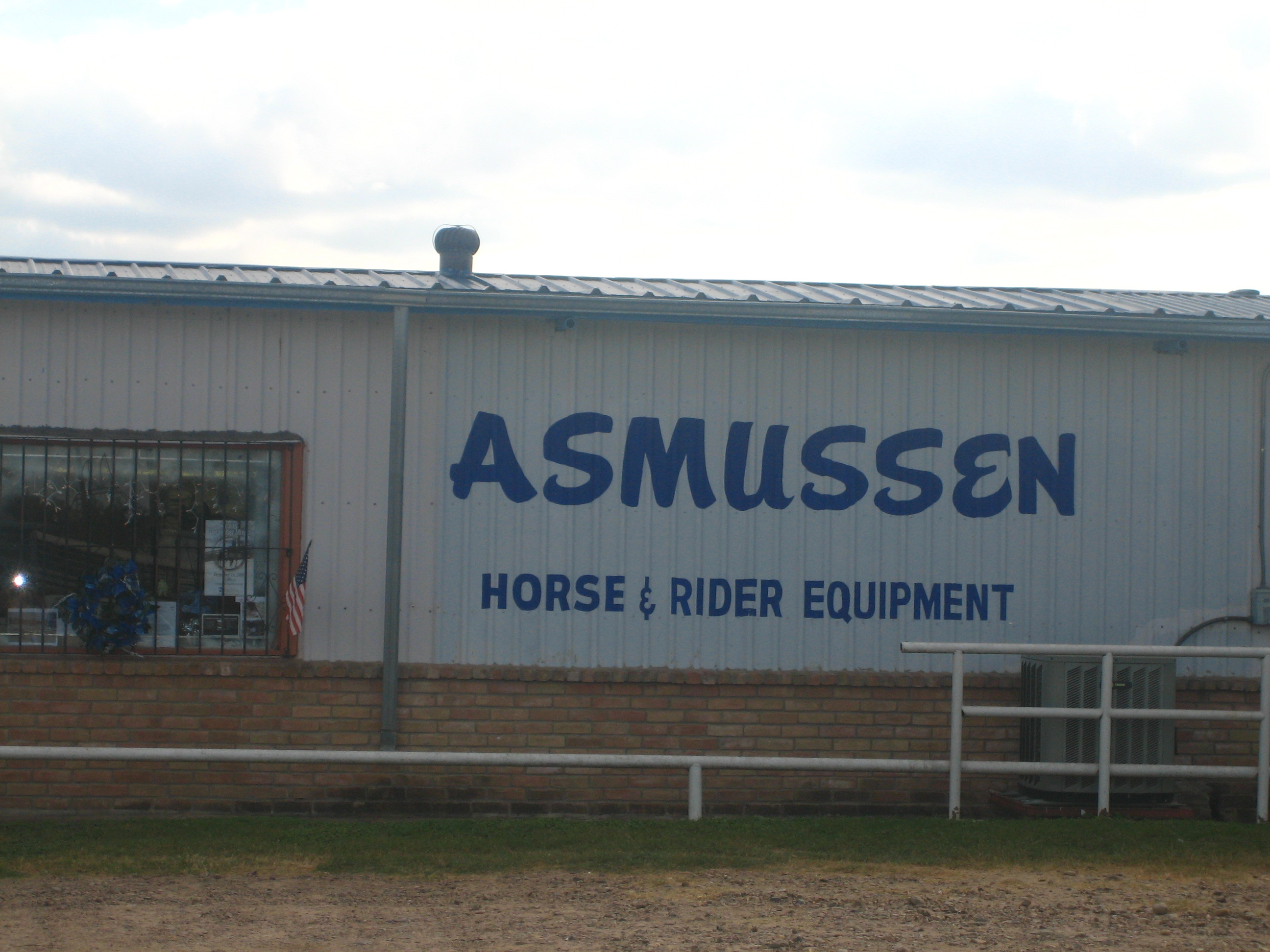 I took photo on Nov. 20, 2008.Billy Hathorn (talk) 00:16, 22 November 2008 (UTC)